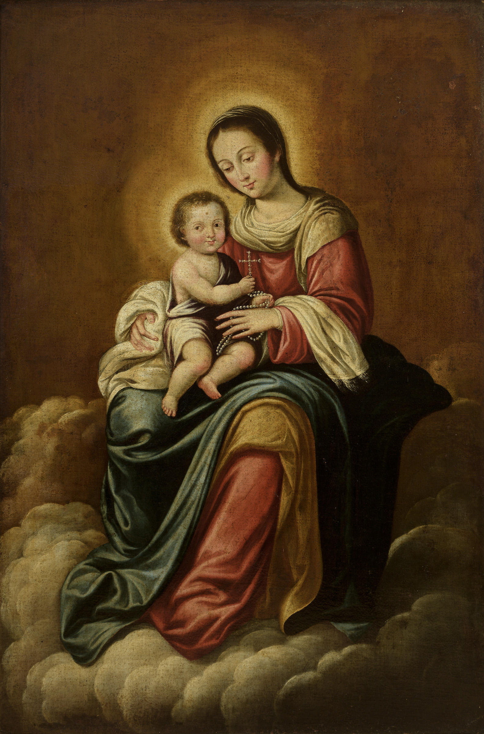 Nuestra Señora del Rosario - Juan del Castillo